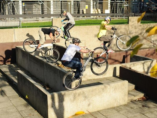 4 elite trials riders in the London suburbia